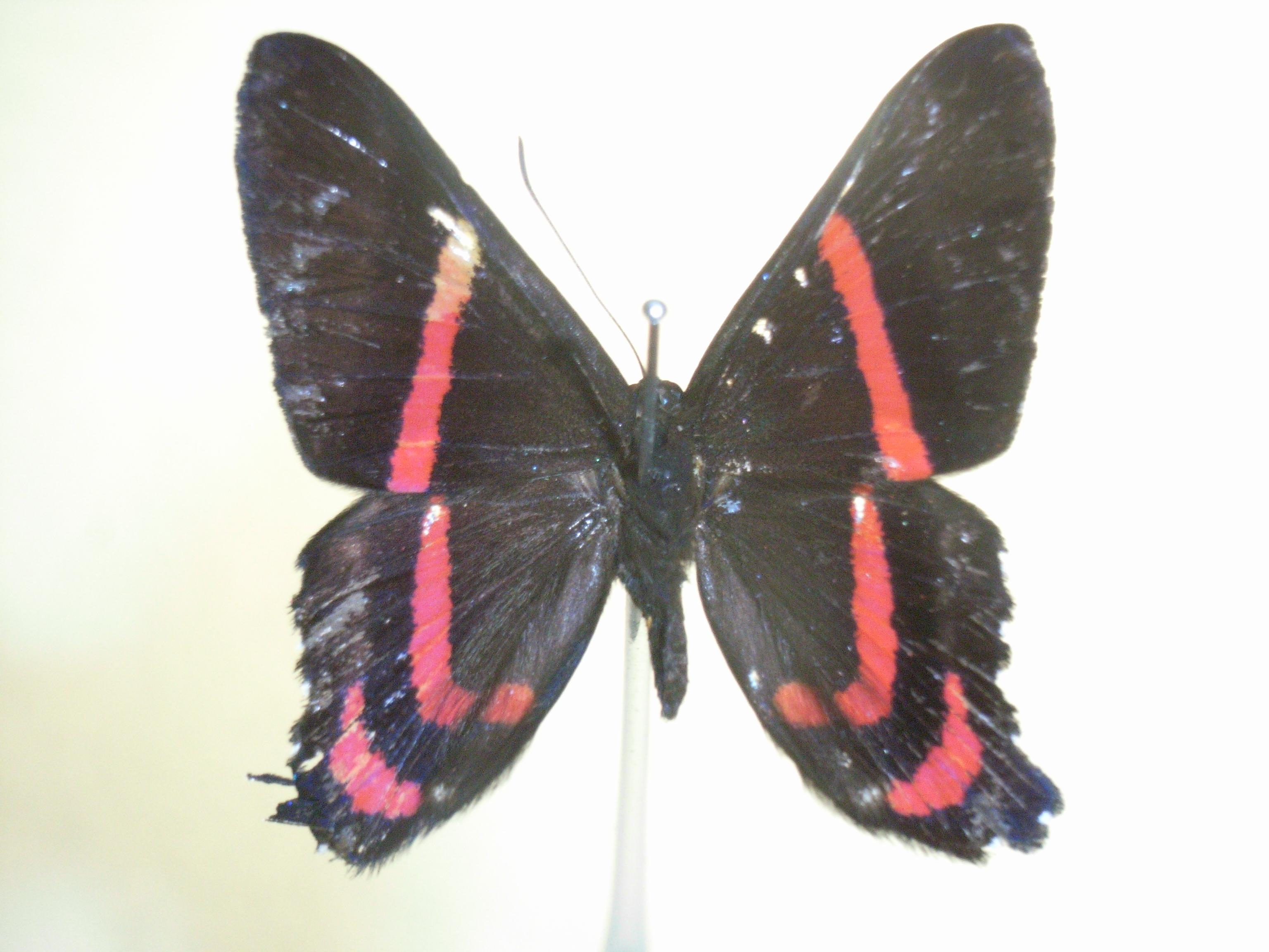 Ancyluris melebaeus:Riodinidae